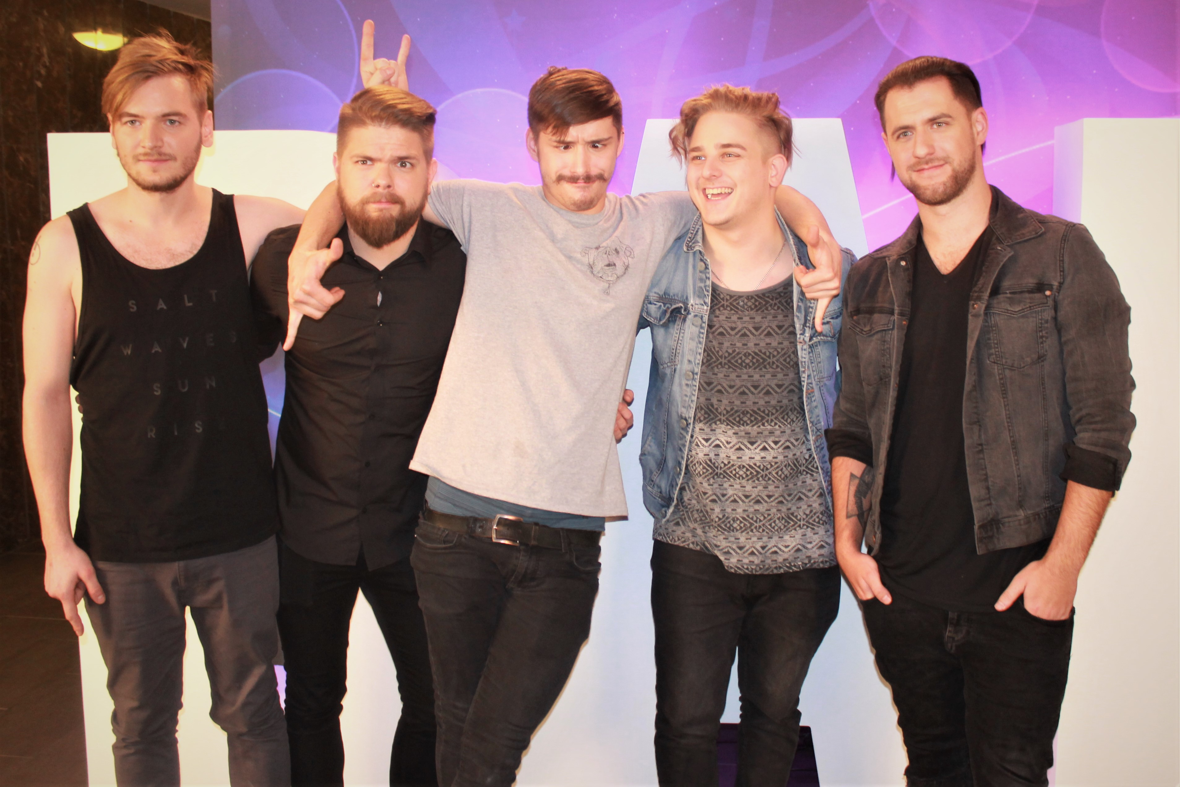 AWS, the winner of A Dal 2018